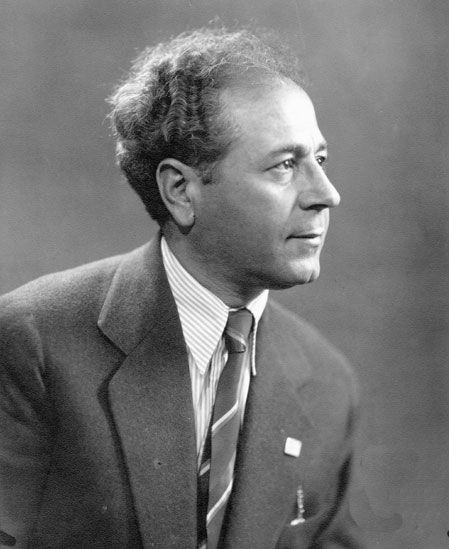 Antun Saadeh - Syrian intellectual and founder of the SSNP.